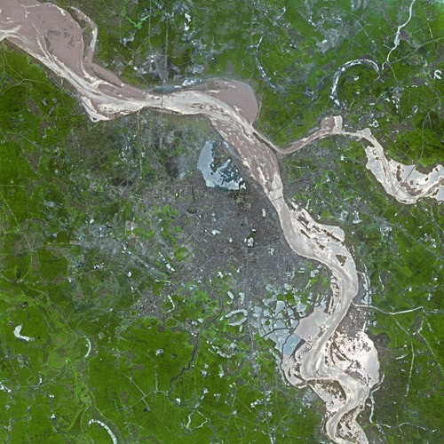 Hanoi by SPOT Satellite